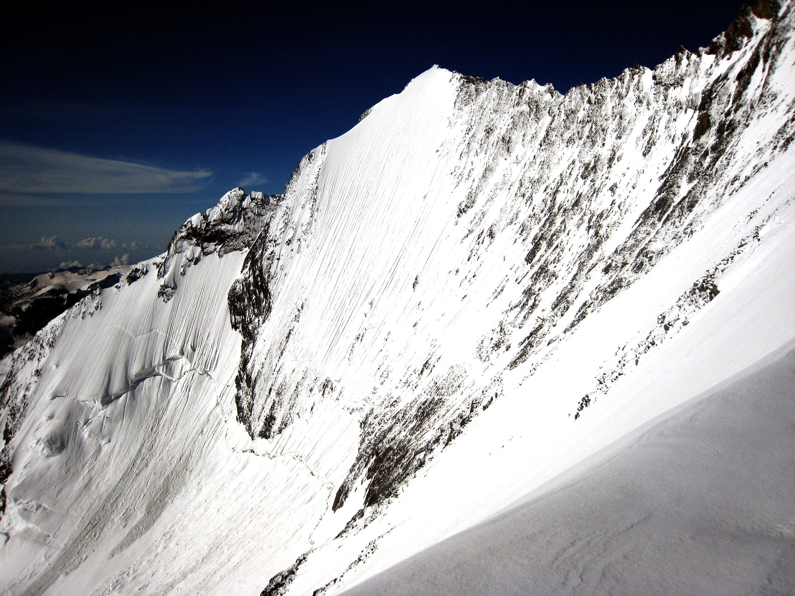 Lenzspitze, north-east face